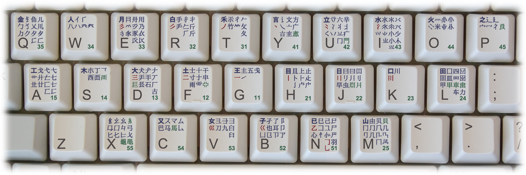 Wubi keyboard layout